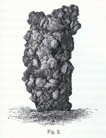 Tower-like casting from near Nice, constructed of earth, 2-3 inches high, voided probably by a species of "Perichaeta"; copied from a photograph